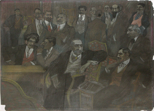 Ion Theodorescu-Sion - În redacția revistei ("At the Magazine's Editorial Office"), with master C. C. Arion in the foreground; conté crayon on black paper, signed bottom right, 43x55,8 cm.